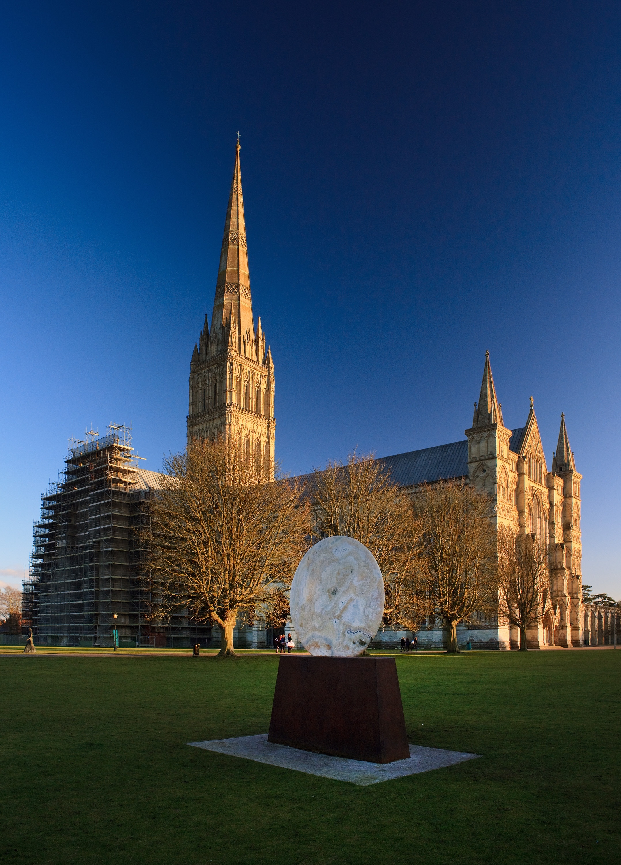 Salisbury Cathedral from the north west, with Emily Young's Lunar Disc I in the foreground.